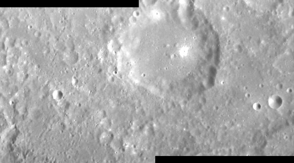 Chiang K'ui crater on Mercury. MESSENGER Narrow Angle Camera mosaic. North is at upper left. Width is about 119 km. Statistics for right image are: Emission Angle: 13.1 Incidence Angle: 50.8 Latitude: 14.3 Longitude: 257.6 Phase Angle: 48.4